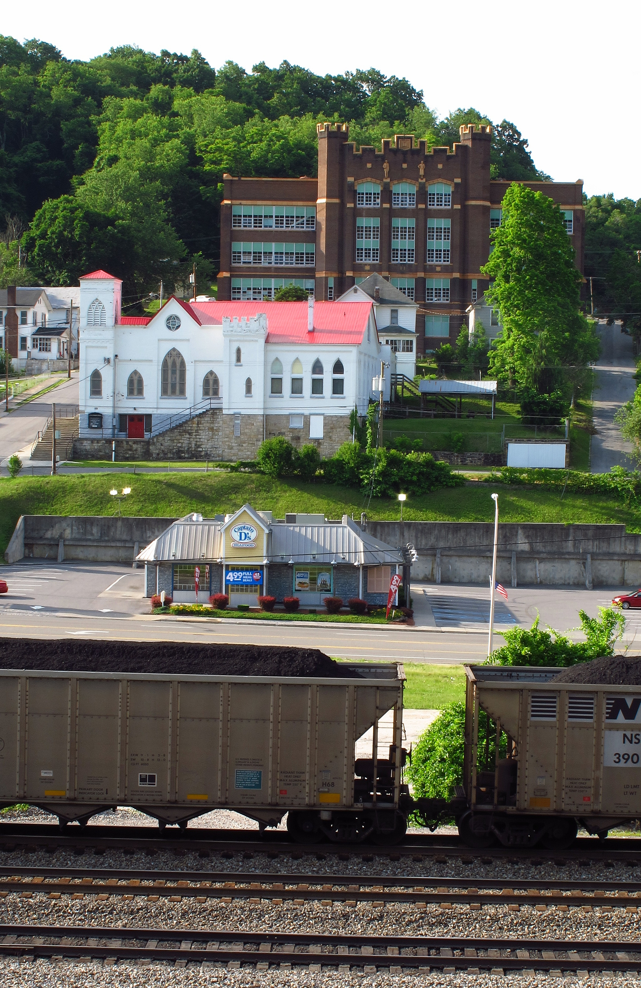 Components of West Virginia culture in the city of Bluefield: good schools, plentiful places of worship, fast food and coal.